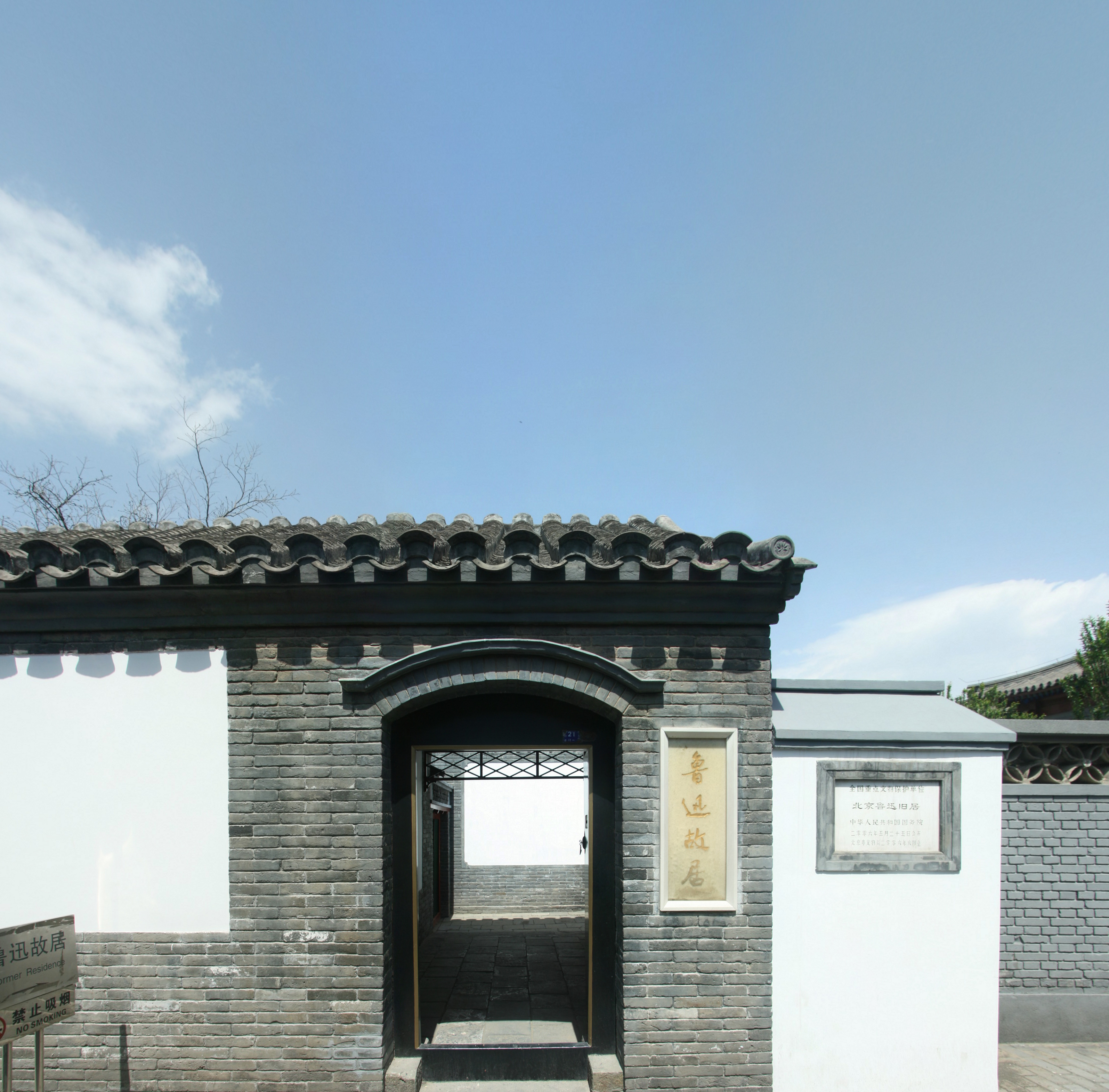 Lu xun former home at beijing